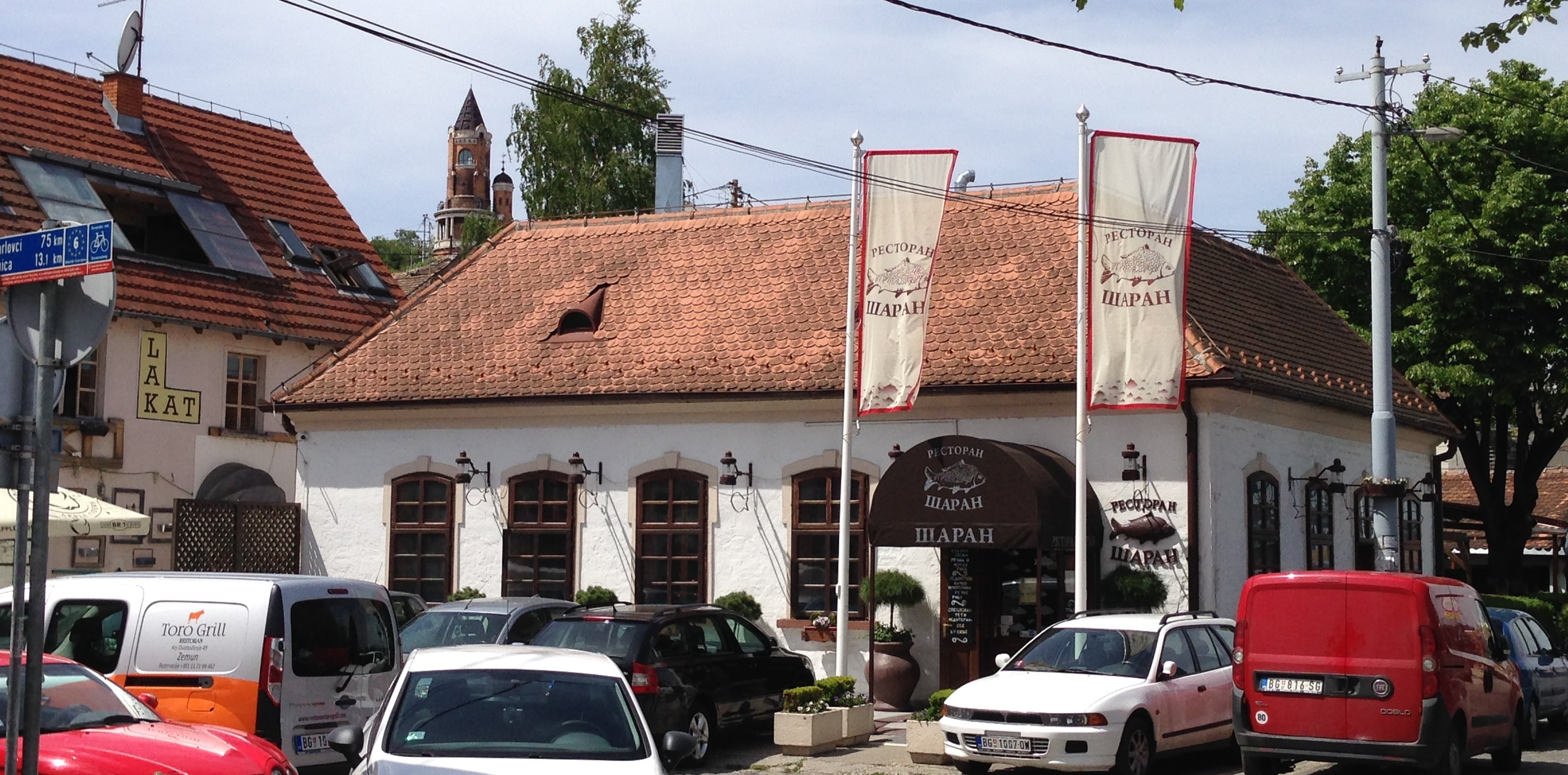 Restaurant Carp in Zemun, Serbia